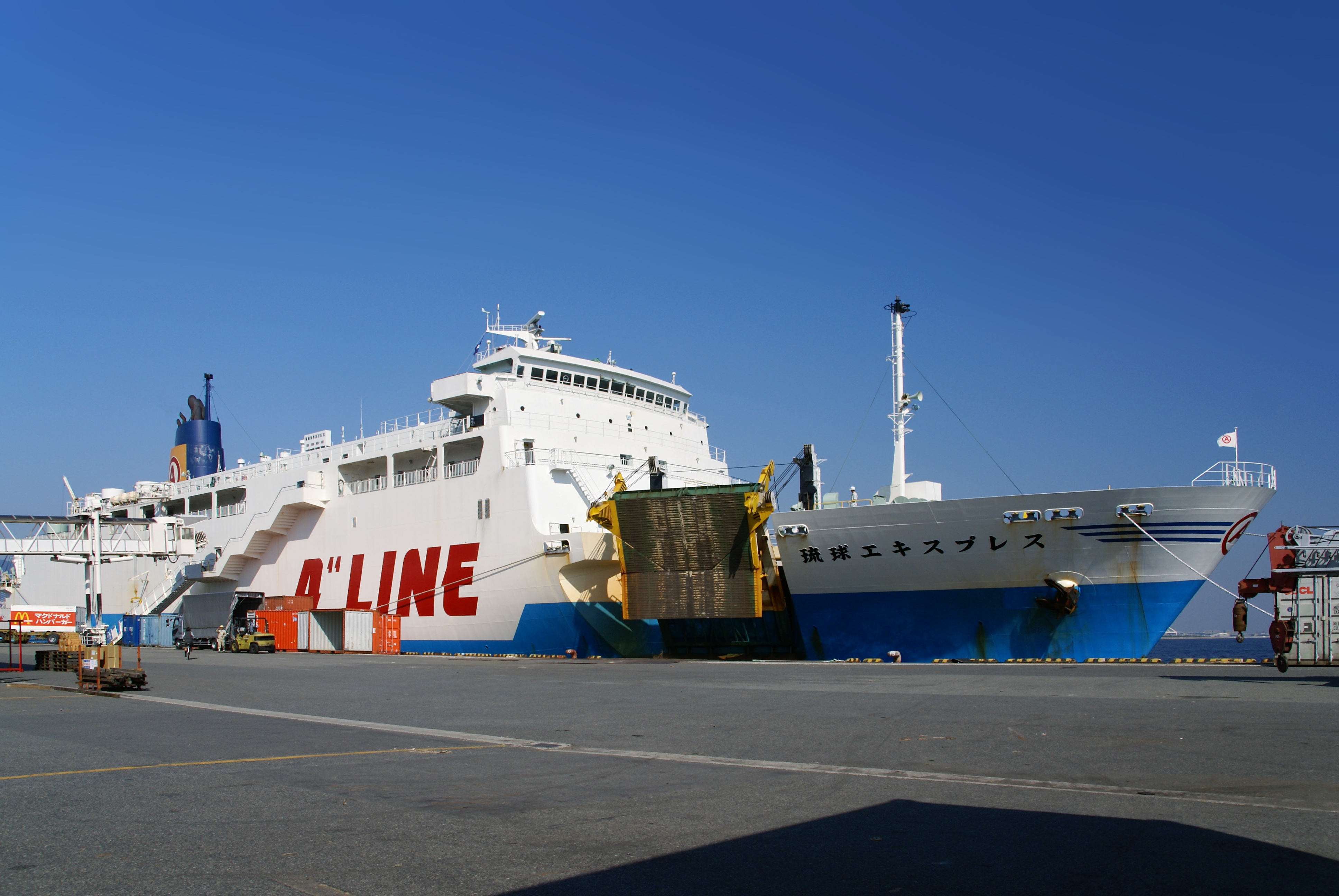 "Ryukyu Express" at Rokko Passenger Ship Terminal of the Kobe harbor in Kobe, Hyogo prefecture, Japan